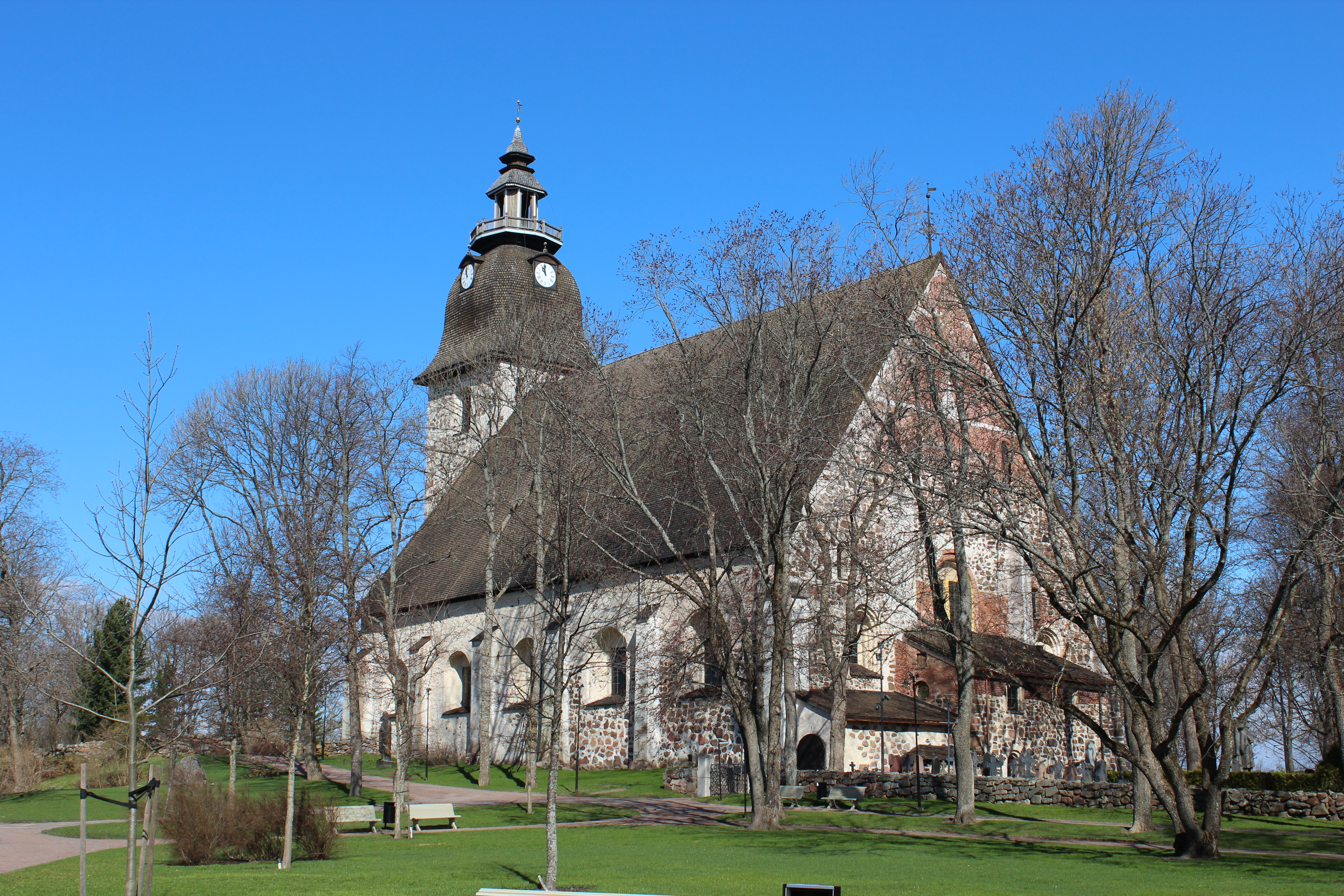 Naantali church.